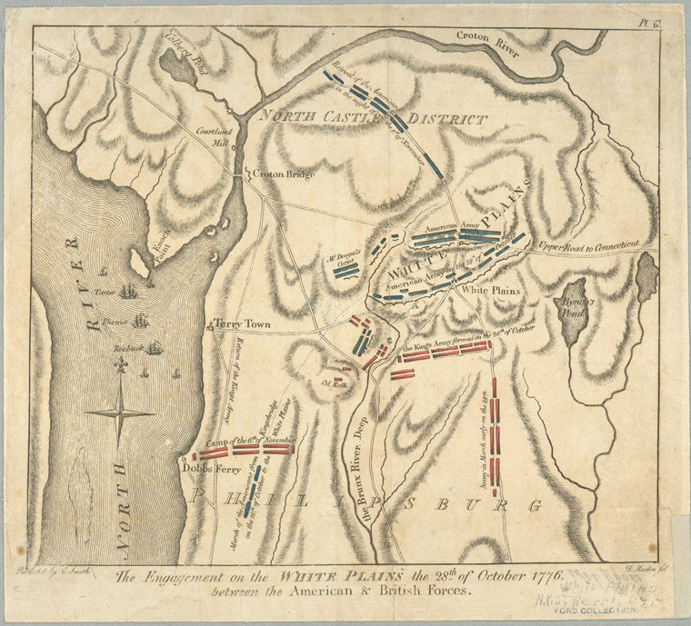 A 1796 map depicting the military positions of the Battle of White Plains, October 1776.